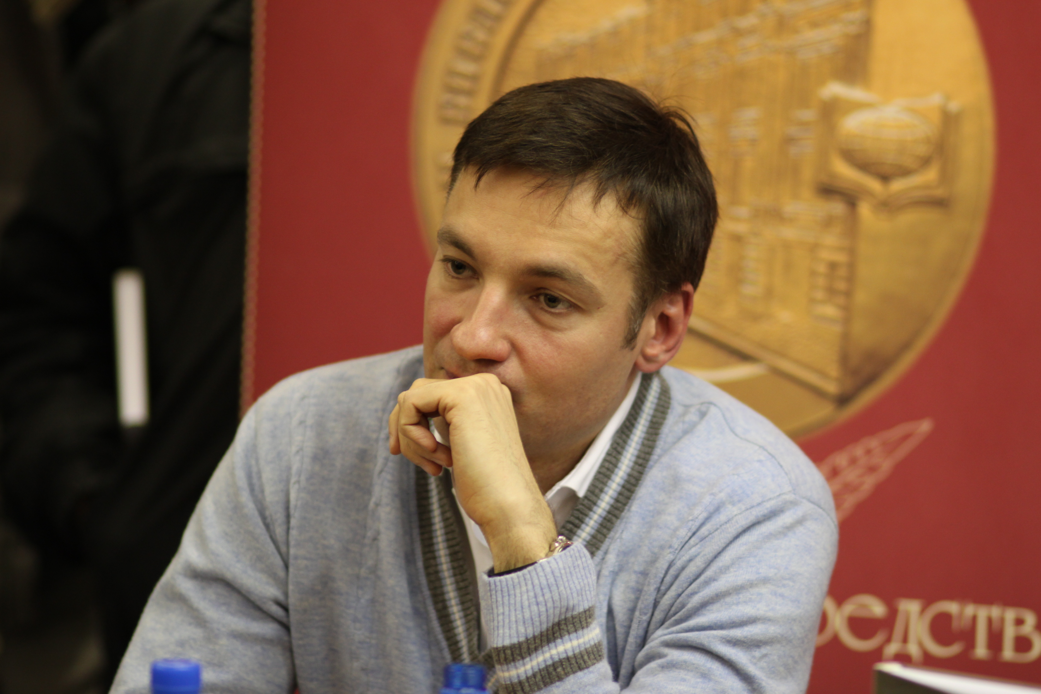 Russian film director Pavel Sanaev